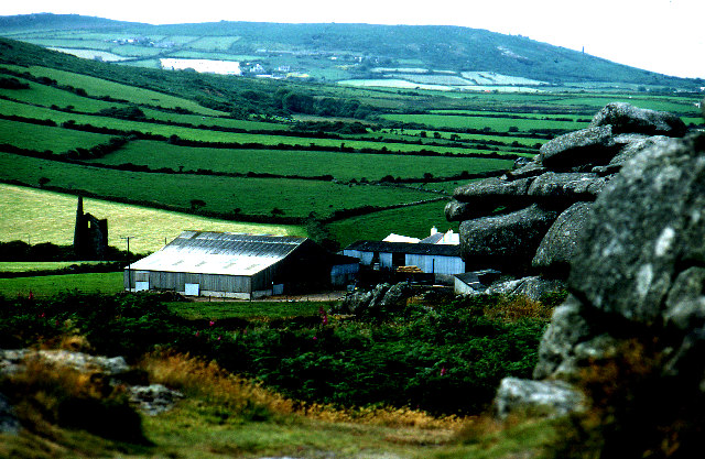 View northwest from Trencrom Hill. The granite hills west of St Ives dominate the skyline in this northwesterly view from Trencrom hill fort. The Mine engine house and chimney stack of Wheal Sisters (Tincroft and Wheal Mary) are at left centre SW513367. There is another chimney on the right skyline, probably St Ives Consols or Wheal Trewith at grid square SW4939